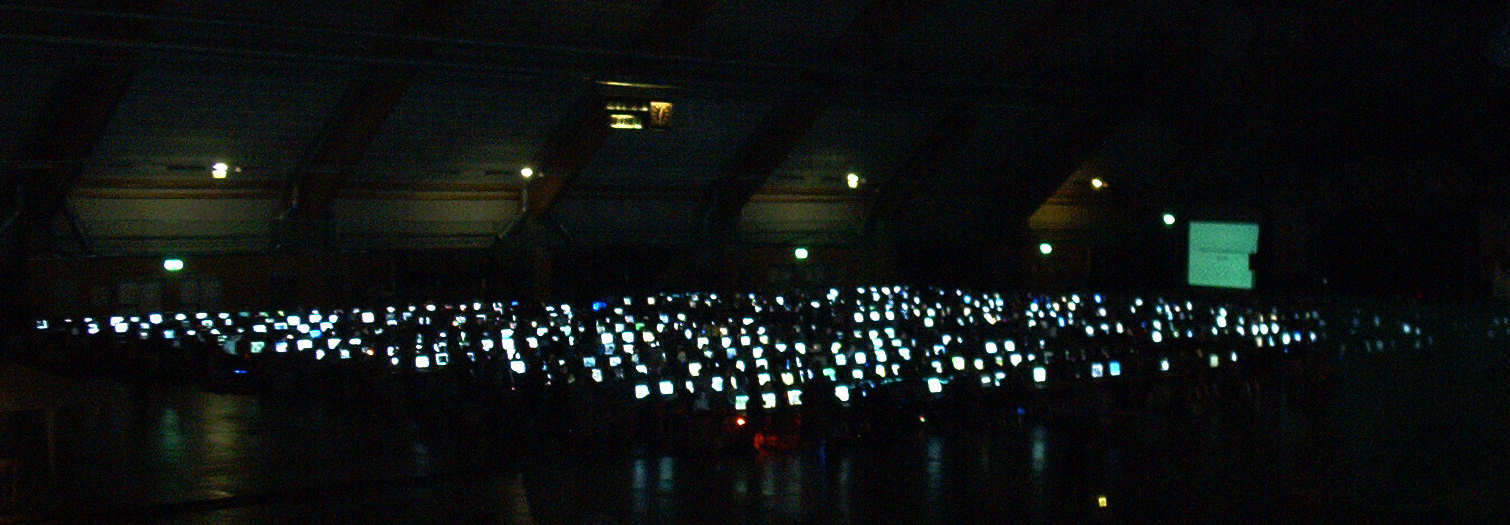 View over Krangparty 10, which took place in May 2004.